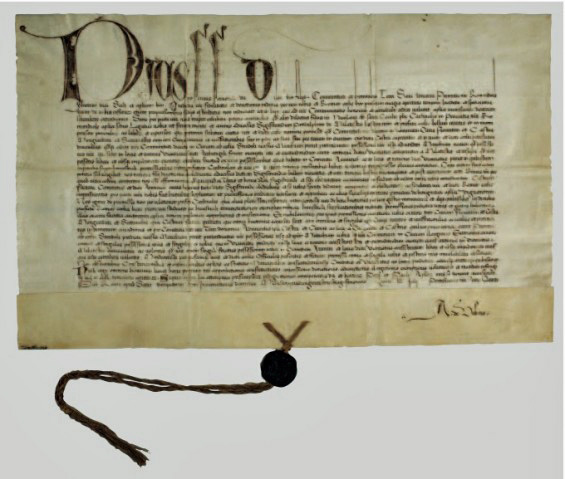 Treaty of Fossombrone, 1463, Biblioteca Nazionale, City of San Marino (SMR)